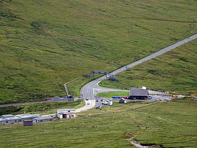 Bungalow Station viewed from Summit Station on the Snaefell Mountain Railway.